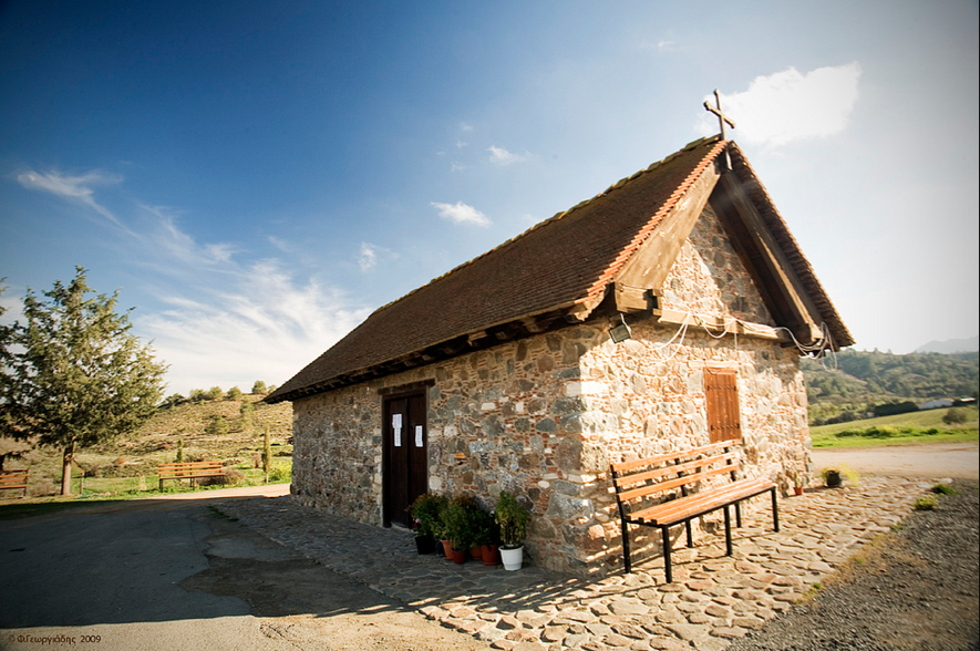 Chapel of the Saint Mary the Mother of God near Klirou village, Cyprus